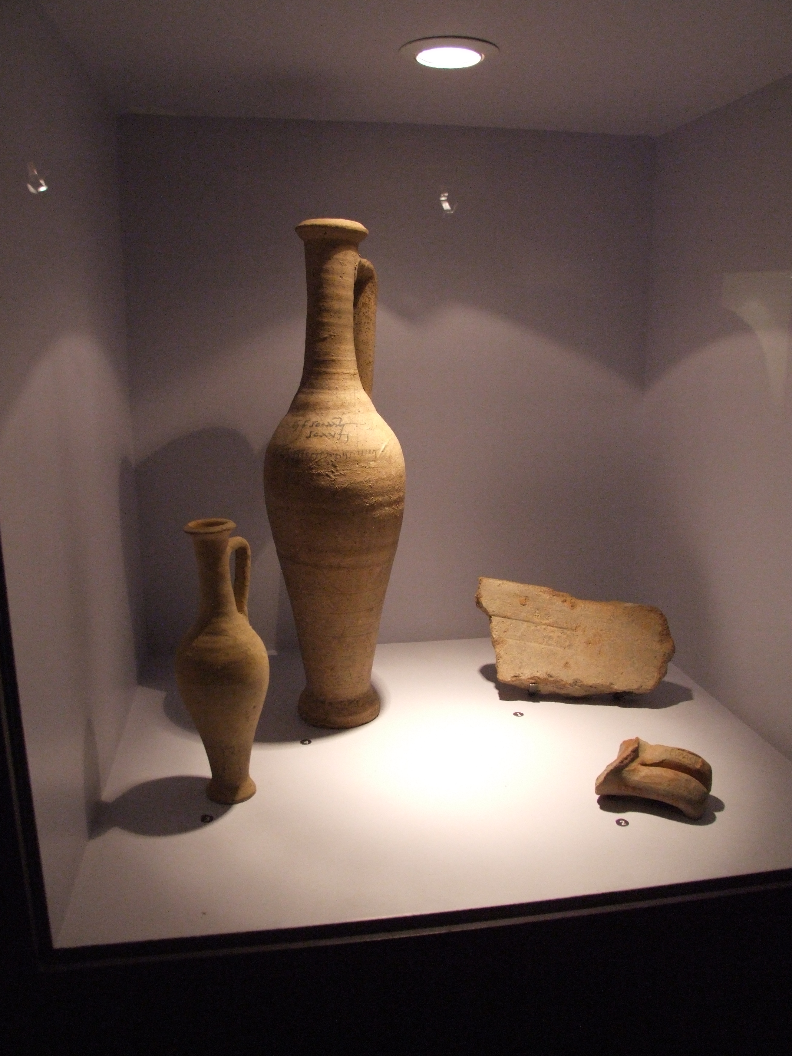 left: two amphores for garum; deutsch: Zwei Amphoren für die durch enzymatische Zerlegung gewonnene römische Fischwürzsoße Garum; Aufgenommen während der Pompeji-Ausstellung Europäischer Kulturpark Bliesbruck